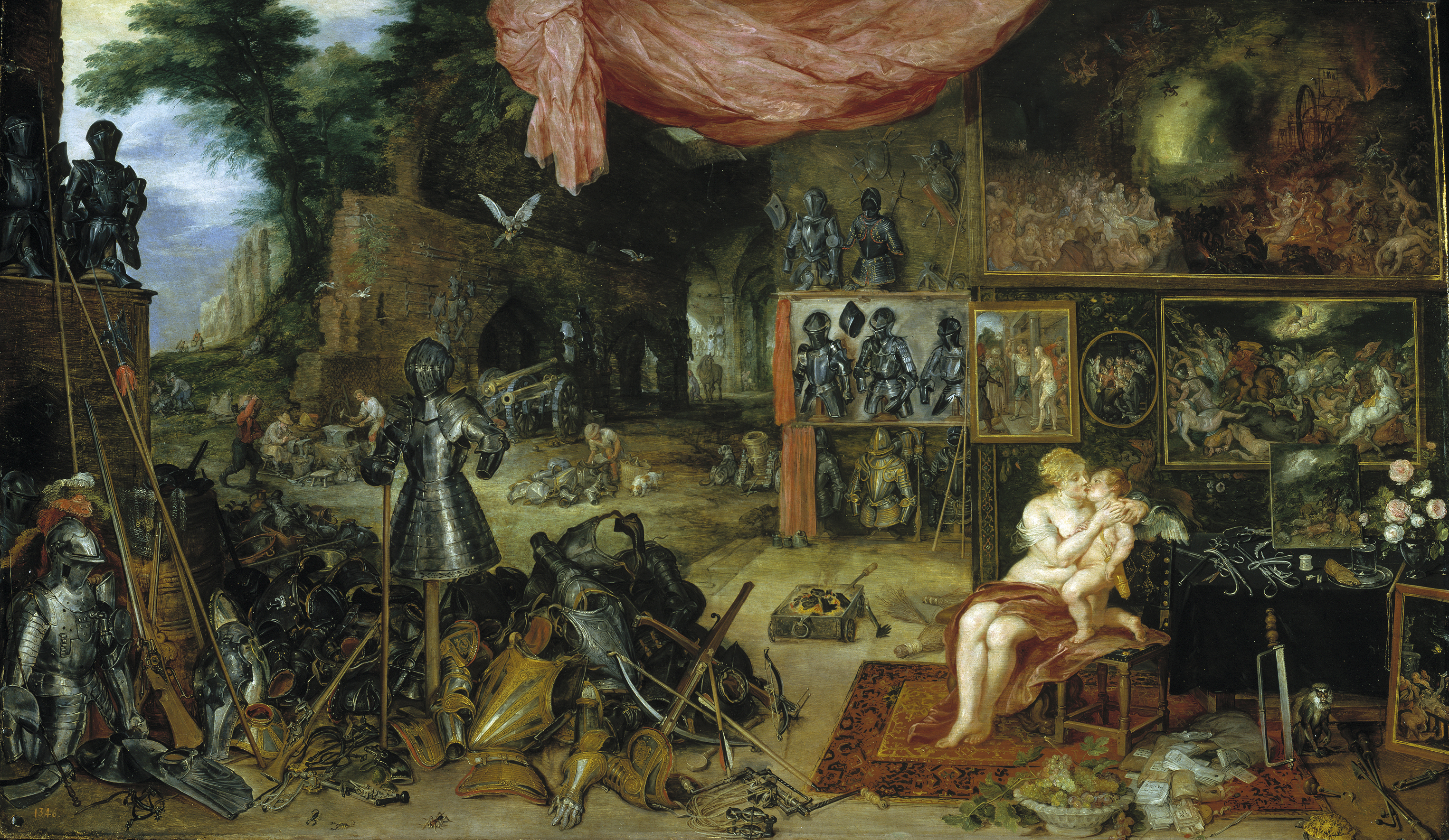 Allegory of the sense of touch